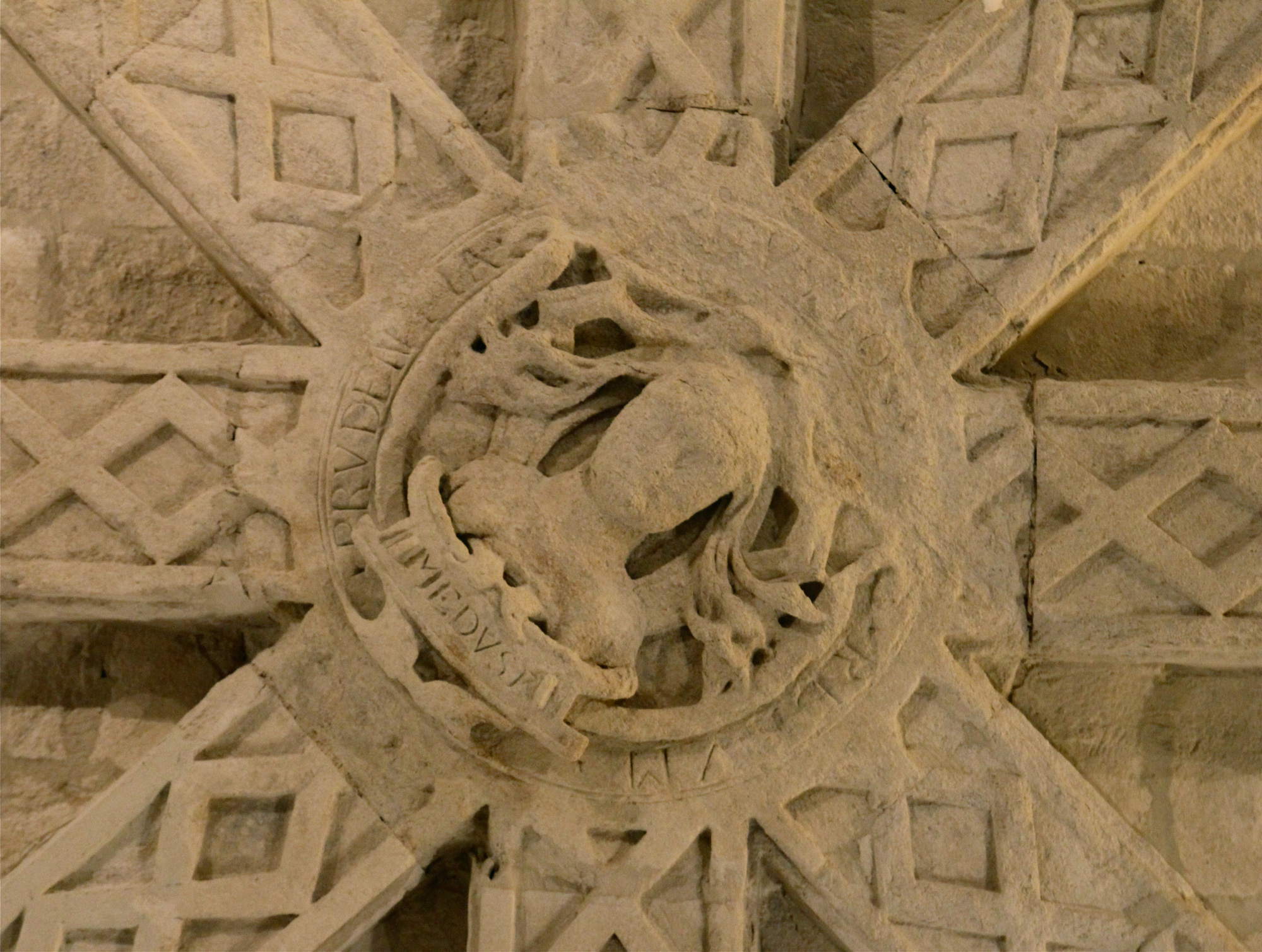 Kitchens in castle of Coulonges-sur-l'Autize in Deux-Sèvres, France.